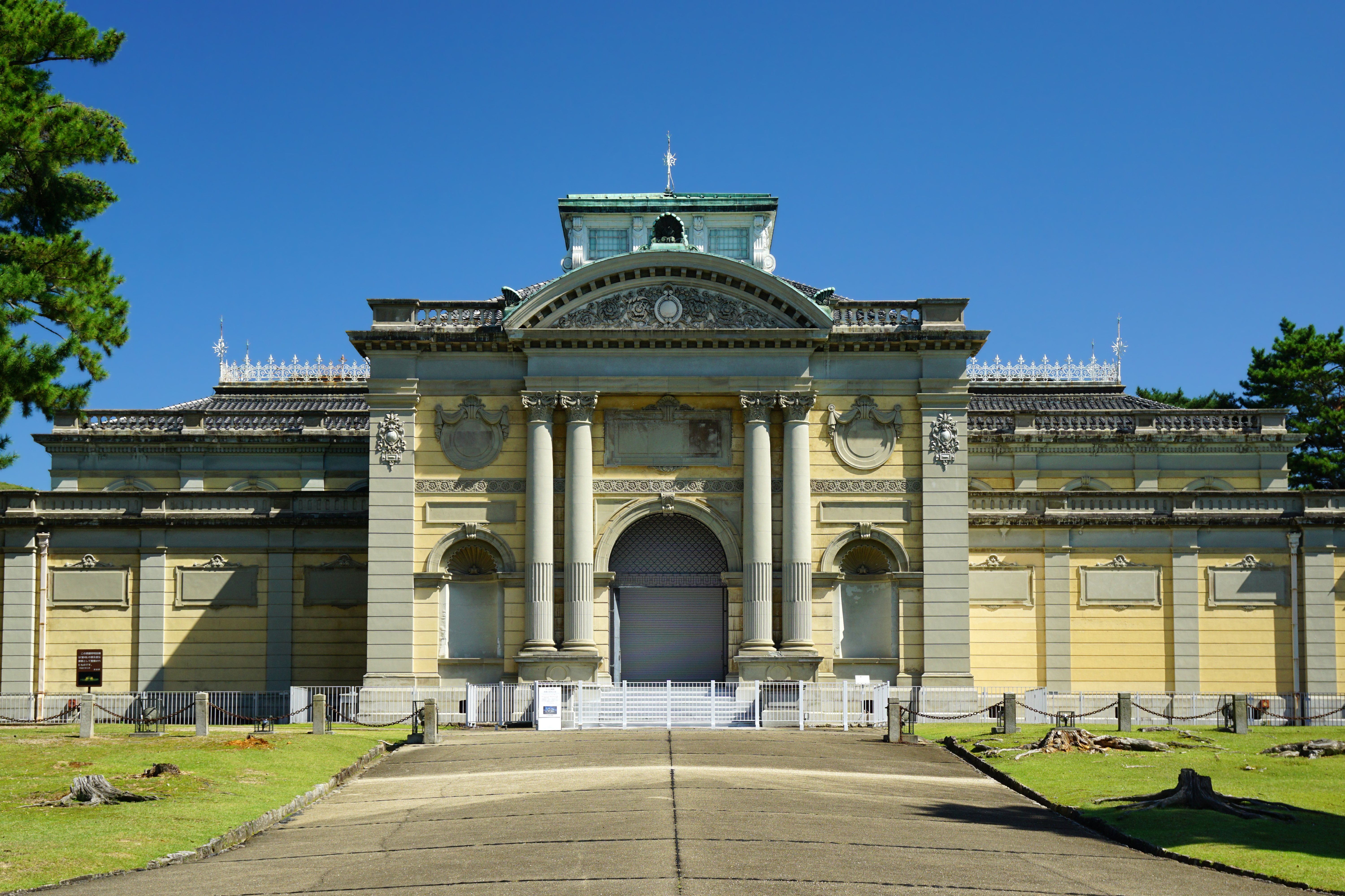 Nara National Museum in Nara, Nara prefecture, Japan.